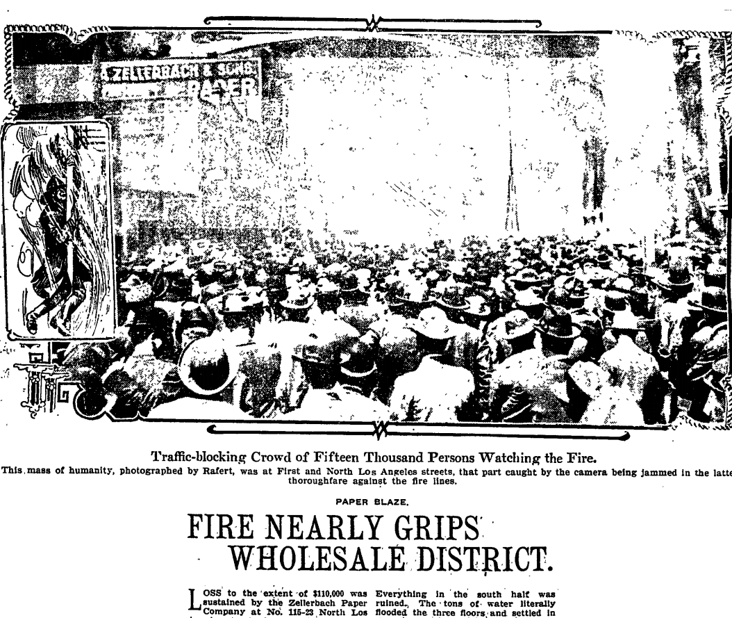 Newspaper clipping showing crowd of thousands witnessing fire in at the Zellerbach building in the Wholesale District, California, on April 6, 1909. Inset at left shows fireman who slid down a hose line to escape the fire.